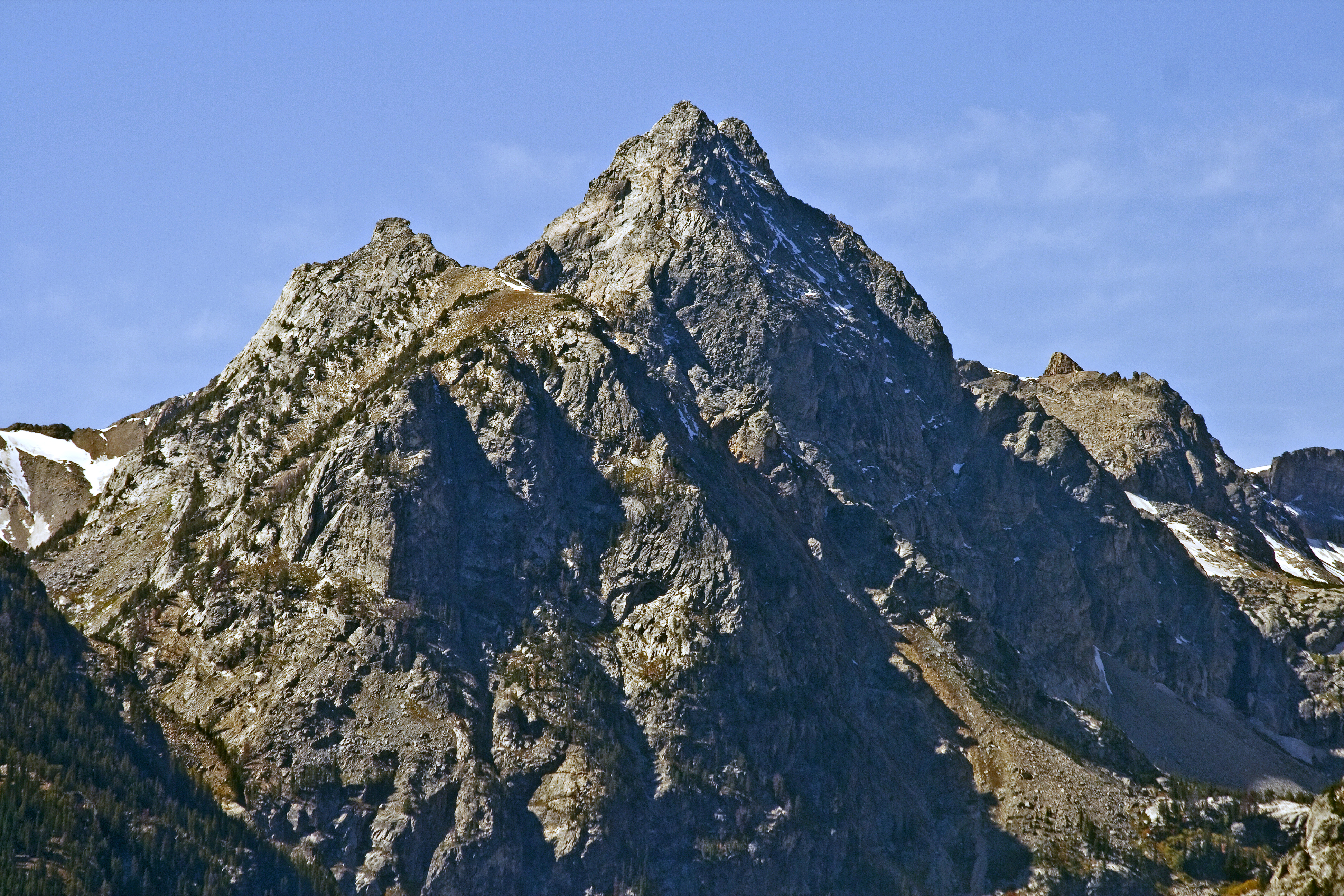 Mount Wister in Grand Teton National Park, Wyoming, USA. Image taken from the Teton Point turnout.